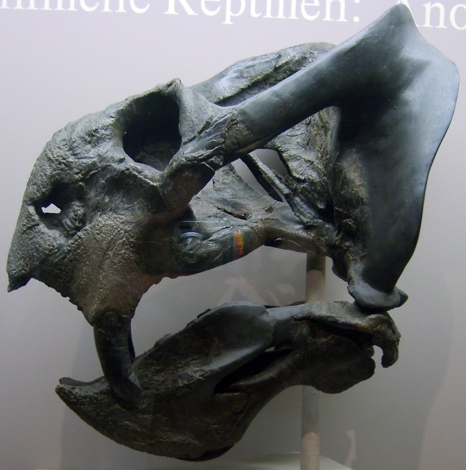 Daptocephalus (formerly Dicynodon) leoniceps skull at the Museum für Naturkunde, Berlin.